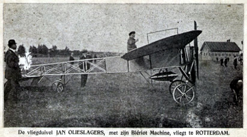 Jan Olieslagers' Blériot XI in Rotterdam. Lieutenant Jan Olieslagers was a Flemish motorcycle and aviation pioneer who set world records with both types of machinery. He became a flying ace during World War I; he was credited with six confirmed victories. He later was instrumental in developing Antwerp's airport.